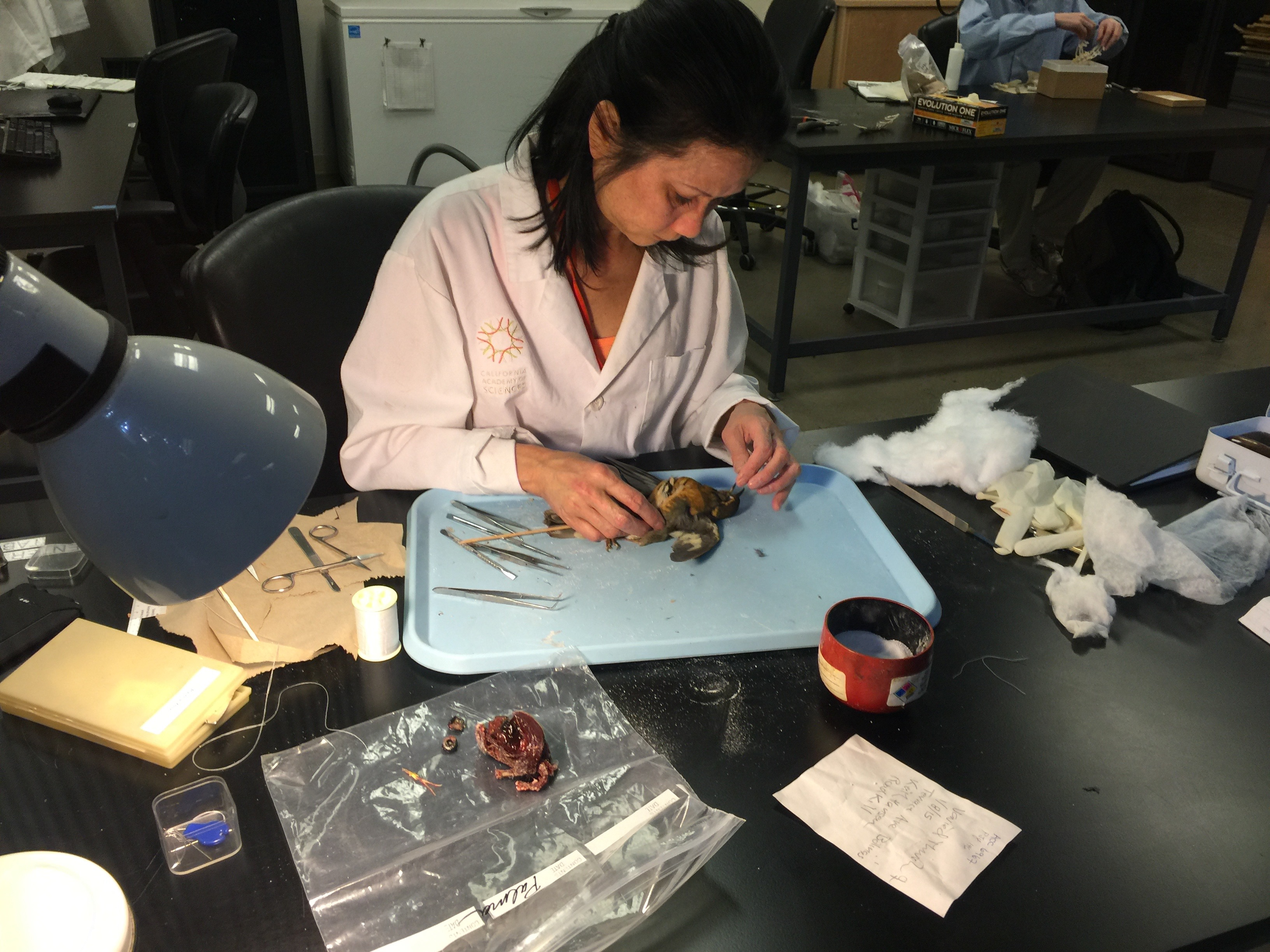 Preparation of a bird during a NightLife event at the California Academy of Sciences, San Francisco.